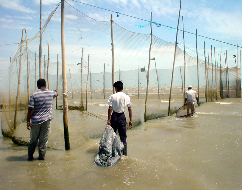 Traditional fishing gear in the Persian Gulf, since the 1800s, with set nets (fixed stake net trap), called moshta in Iran and hadrah in Kuwait.